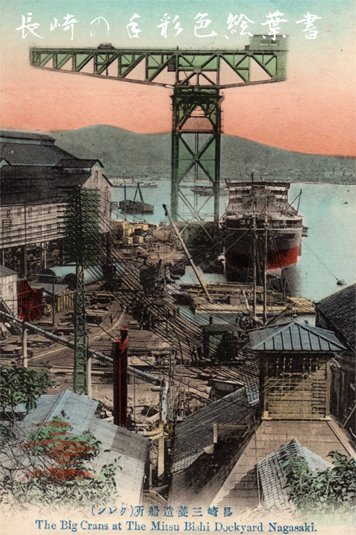 Japanese hand tinted postcard of the Big Crane in the Mitsubishi Dock Yard in Nagasaki